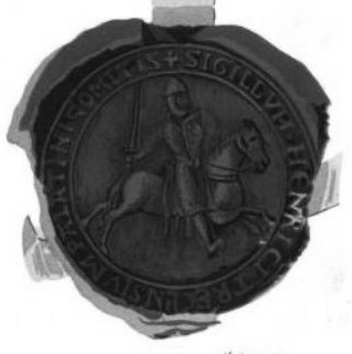 Henry I of Champagne